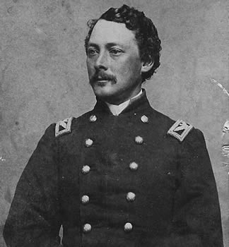 William O. Stevens: Age, 32 years. Enrolled May 20th, 1861 at Dunkirk. Mustered into Company D as a captain June 21st, 1861 for a three-year tour of duty. Promoted to major June 25th, 1861 and mustered in as a colonel September 8th, 1862. Killed in action May 3rd. 1863 at Chancellorsville Va.